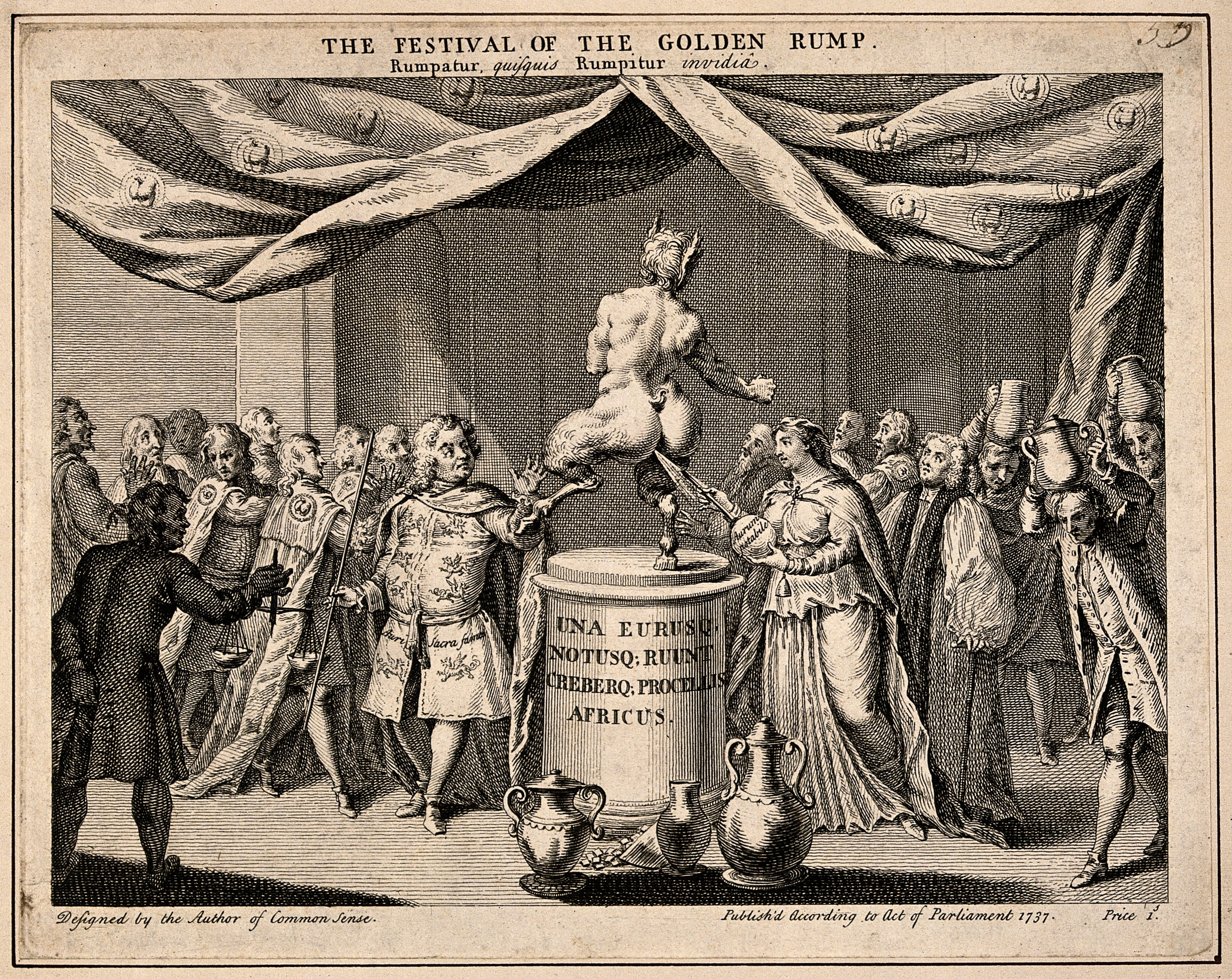 A satirical lithographic print which illustrates the plot of The Golden Rump, a farcical play of unknown authorship (though often ascribed to Henry Fielding) said to have been written in 1737. The play has never been performed on stage or published in print, and since no manuscript survives there is doubt over whether it ever existed in full. The play was first mentioned in an anonymous allegory called A Vision of the Golden Rump published in two parts in the Opposition journal Common Sense on 19 and 26 March 1737. According to an article in The Rambler's Magazine (1787), pp. 484–485, The Golden Rump was allegedly written at Robert Walpole's instigation to encourage King George II to bring in the Licensing Act 1737 which empowered the Lord Chamberlain to approve all theatre plays before they were staged.